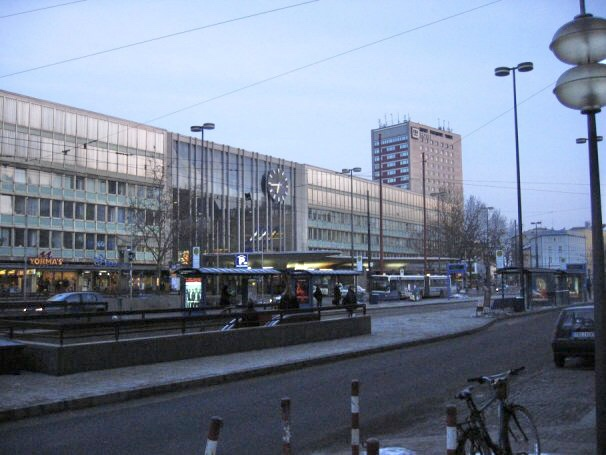 Munich Central Station, early morning